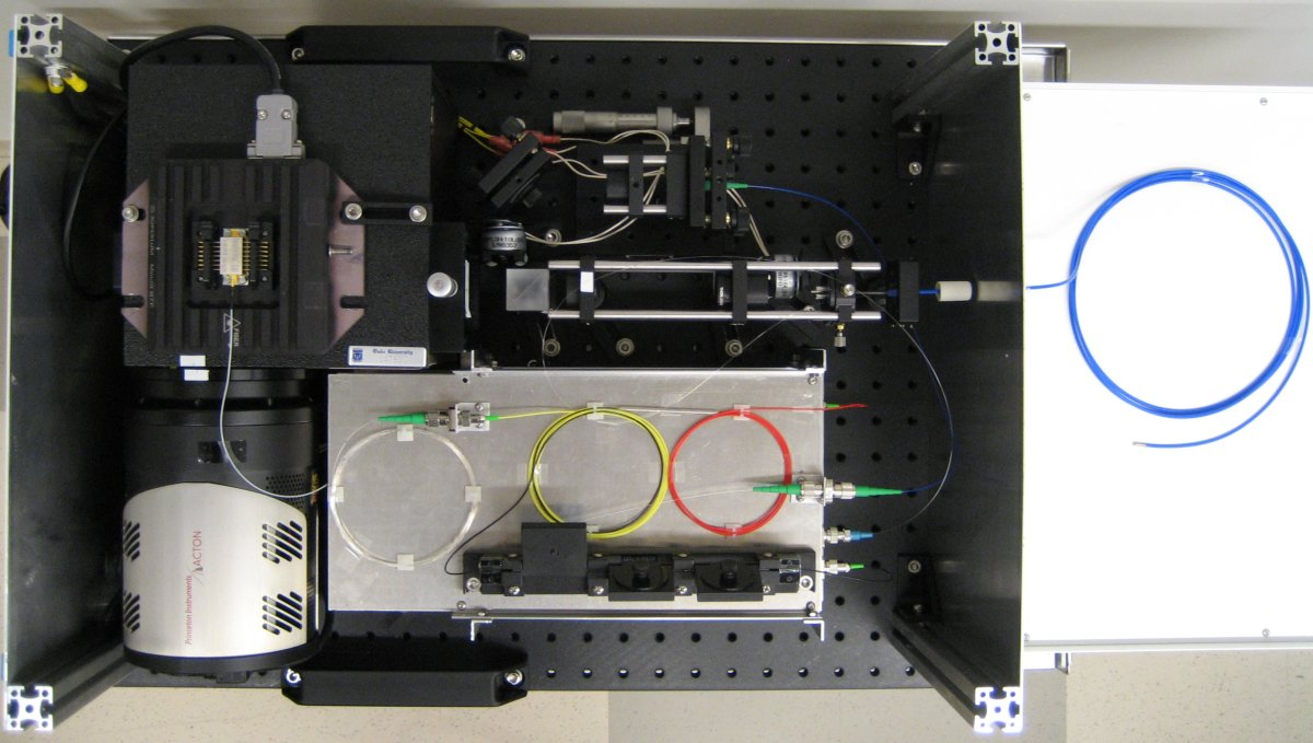 Image of a clinical ALCI system.